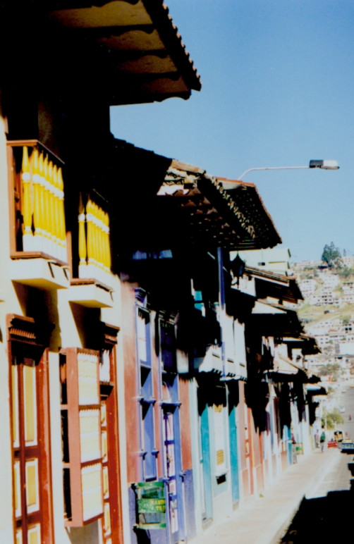 Lourdes Street in Loja (Ecuador)